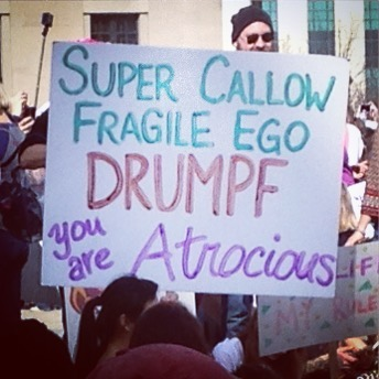 Nashville Women's March: a sign reading "Super callow fragile ego Drumpf you are Atrocious", a pun on "Supercalifragilisticexpialidocious"